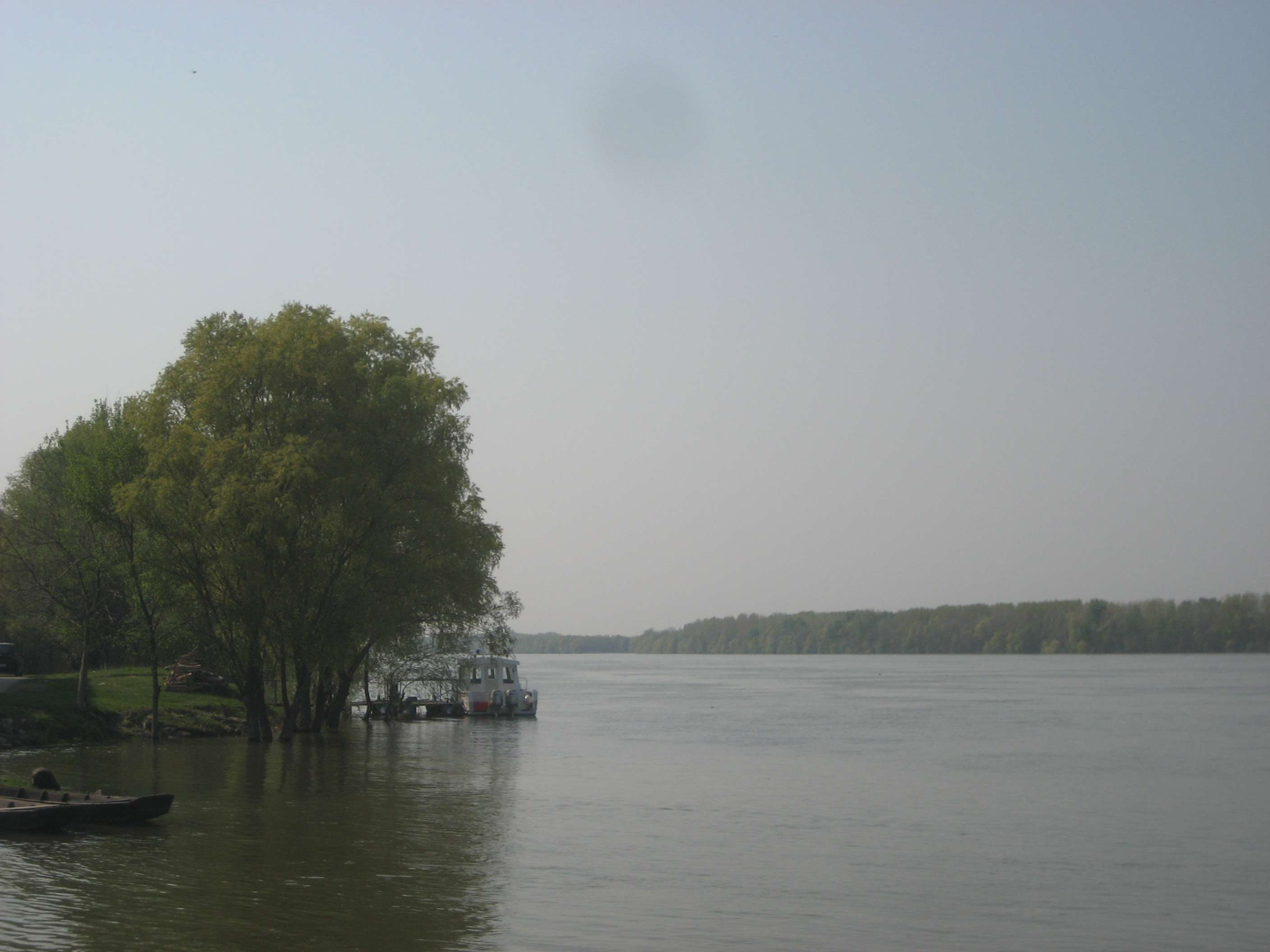 Danube in Sarengrad, Croatia